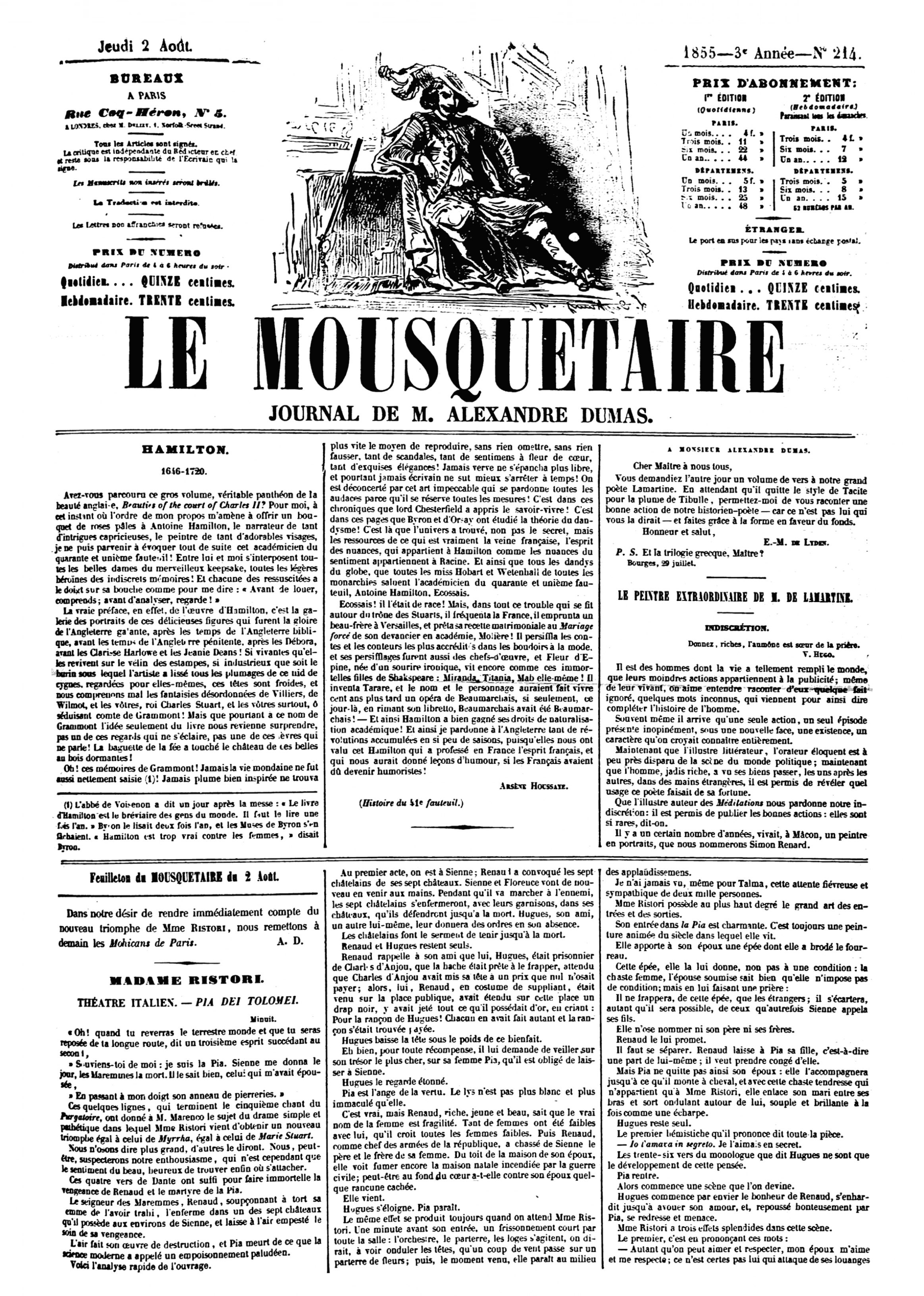 The man of letters Émile Mugnot de Lyden is known for writing short stories. Press review by Émile Mugnot de Lyden published in the daily Le Mousquetaire, newspaper of Mr. Alexandre Dumas. Thursday 2 August 1855, page 1 of number 214, introduction : « To Mr. Alexandre Dumas », followed by the article « The extraordinary painter of Mr. de Lamartine ».